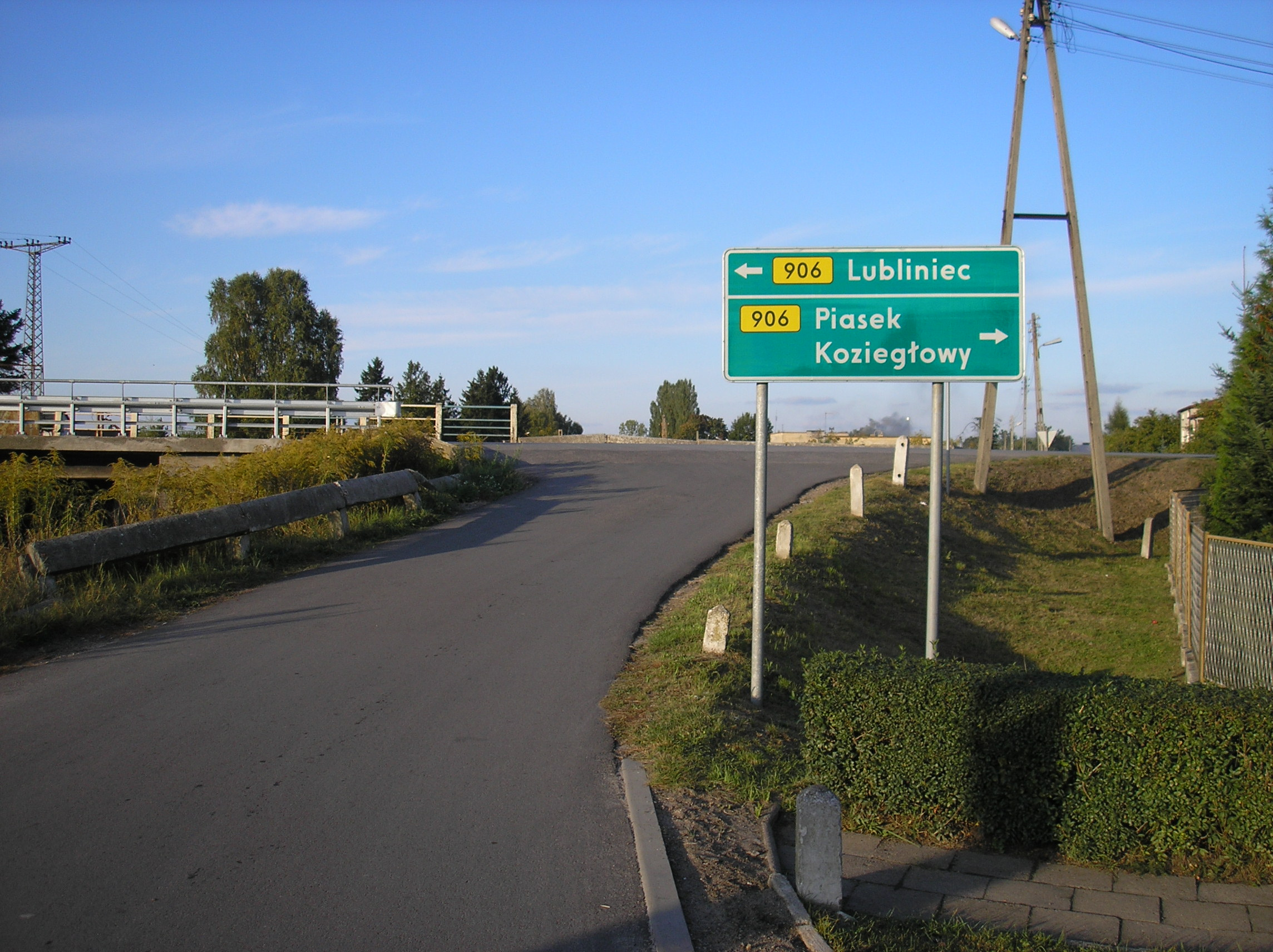 Mainly crossover at Strzebiń